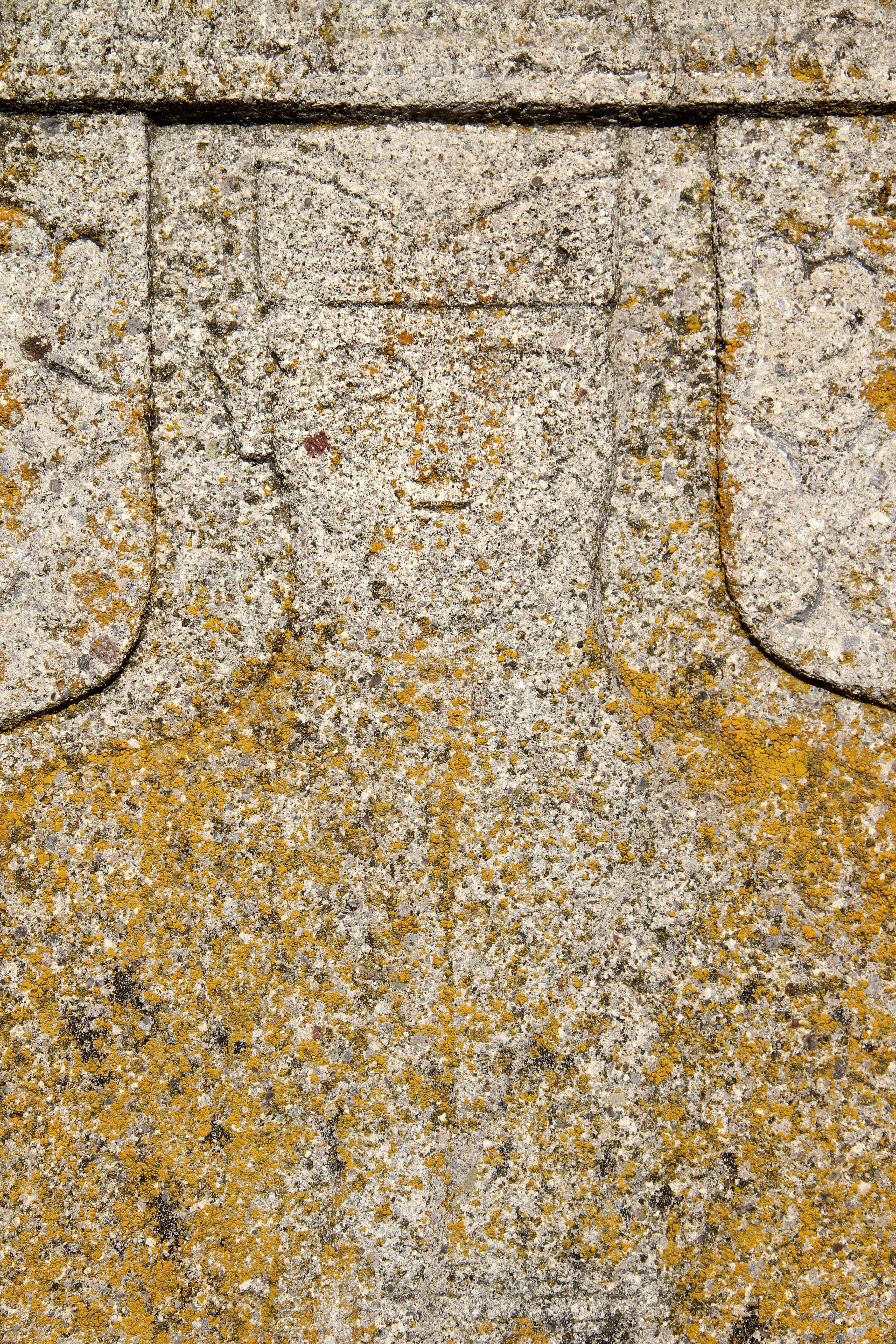 Оld gravestone at the cemetery in the village of Ostra (the municipality of Cacak), Serbia.